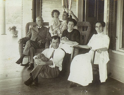 The Pannill family on the porch of their home, Mayodan, North Carolina, 1911. Left-to-right: John Taylor Pannill (father of William); Lucy Lee Pannill; Florence Pannill; Adele Dillard Pannill (holding newborn Adele Dillard Pannill); Florence Hunt (not related). Seated on floor: William Letcher Pannill.